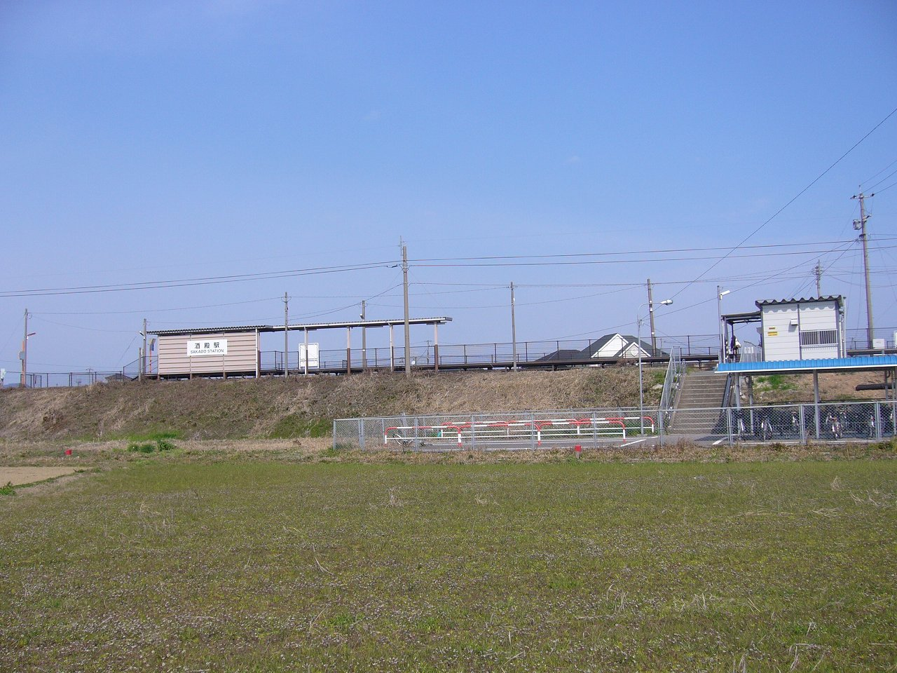 Sakado Station, Kasuya Town, Fukuoka, Japan